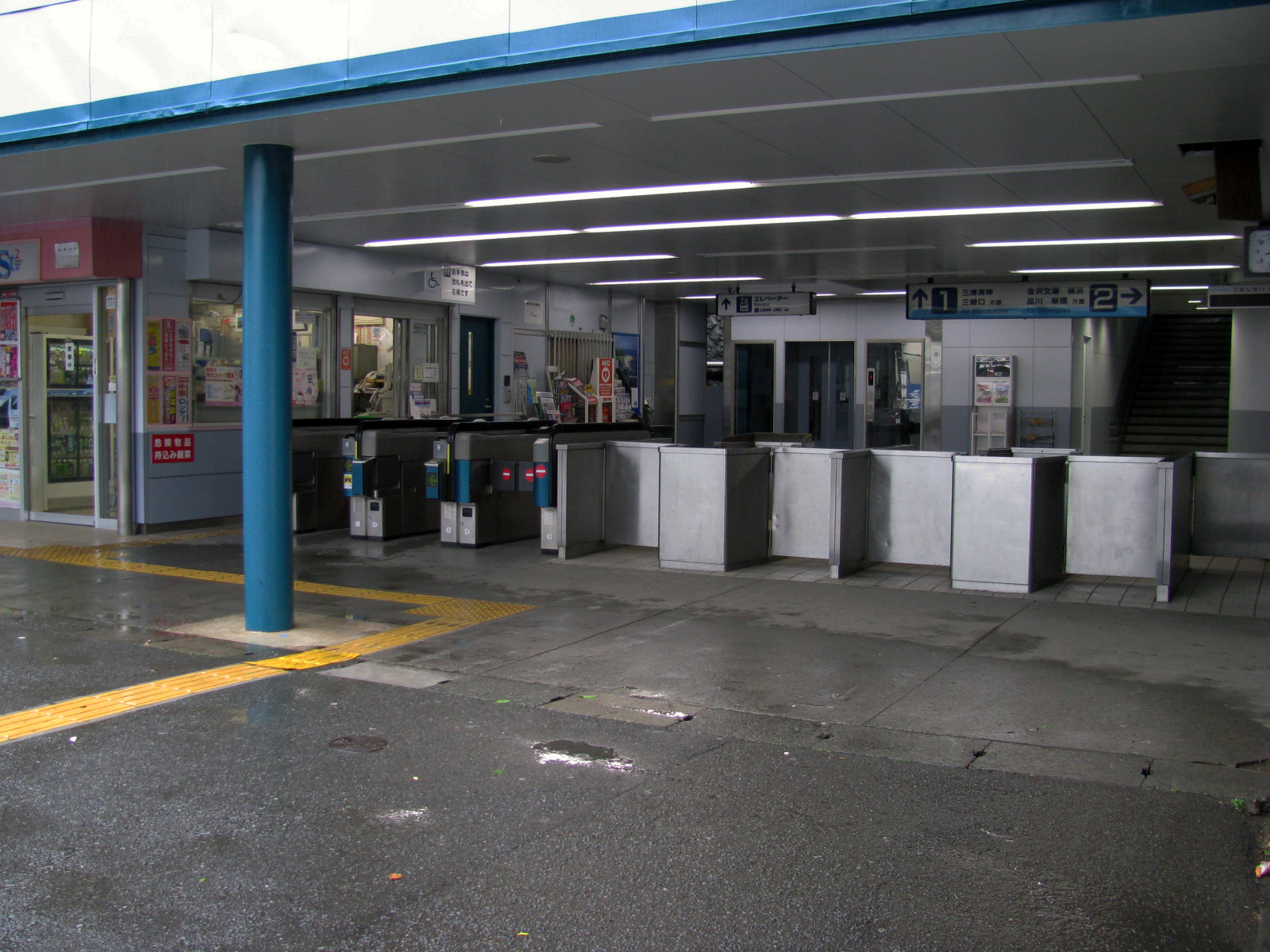 This photo is Tsukuihama Station on Keikyu Kurihama Line.